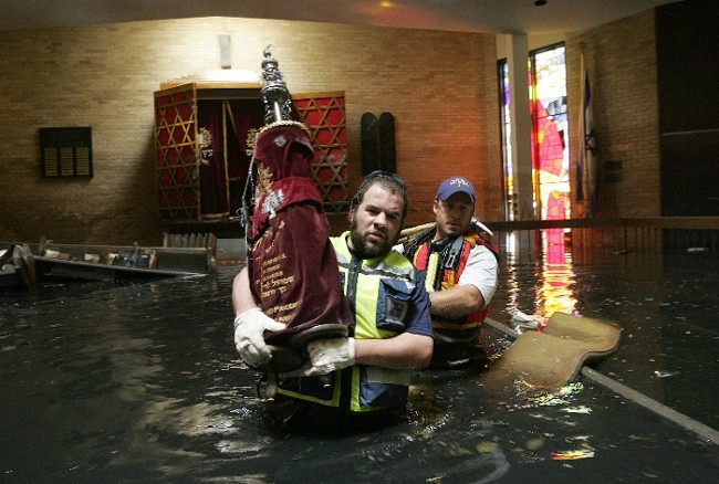 Rabbi Isaac Leider of ZAKA Rescue and Recovery, removes Torah scrolls from the flooded Beit Israel (or Beth Israel) synagogue in New Orleans, September 13, 2005. The scrolls were delivered to a former non-Jewish secretary of the congregation, who was back in New Orleans; she temporarily buried them in her backyard because the Jewish cemetery was still under water. In March, they were disinterred, along with thousands of prayerbooks, and reburied in the New Orleans Jewish cemetery.